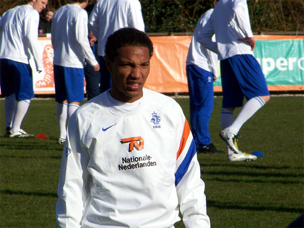 Jonathan de Guzman during a training of the Netherlands national under-21 football team in 2008